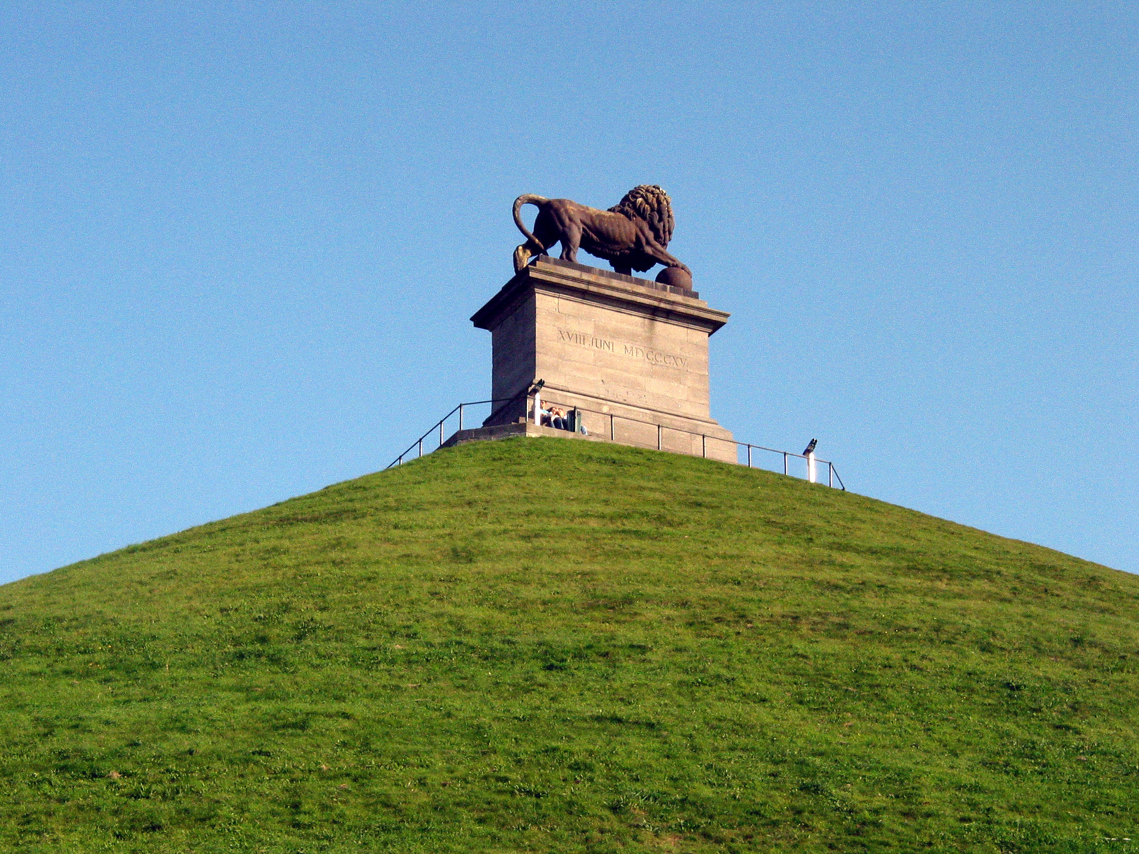 Braine-l'Alleud Belgium, Lions' Hillock. - Commemorative monument of the Battle of Waterloo standing on the spot where the Prince of Orange was wounded during the fight.